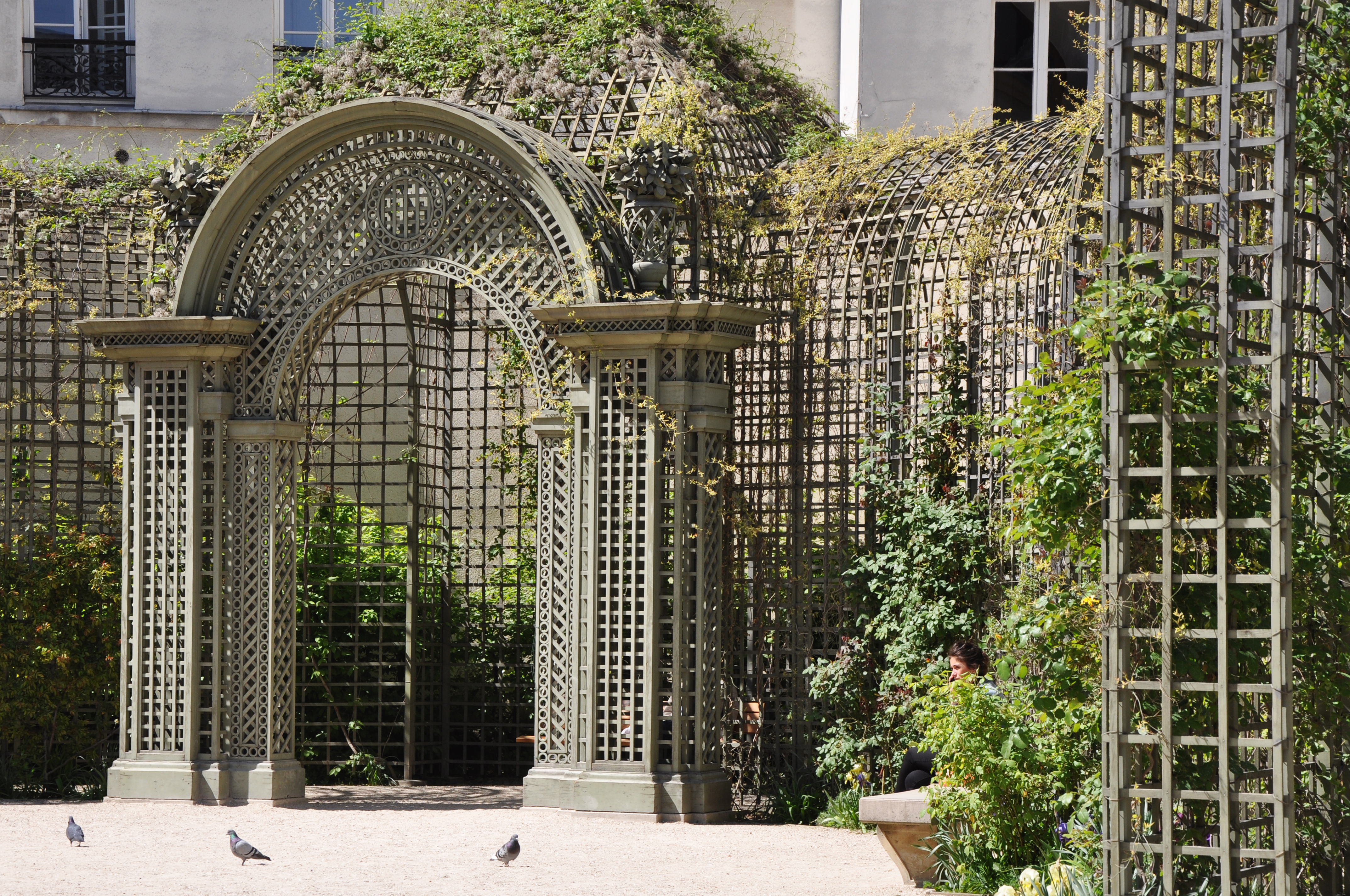 Trellises of Jardin Anne-Franck (Paris, 3)